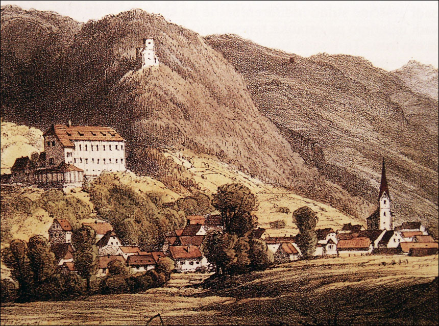 Šoštanj Castle